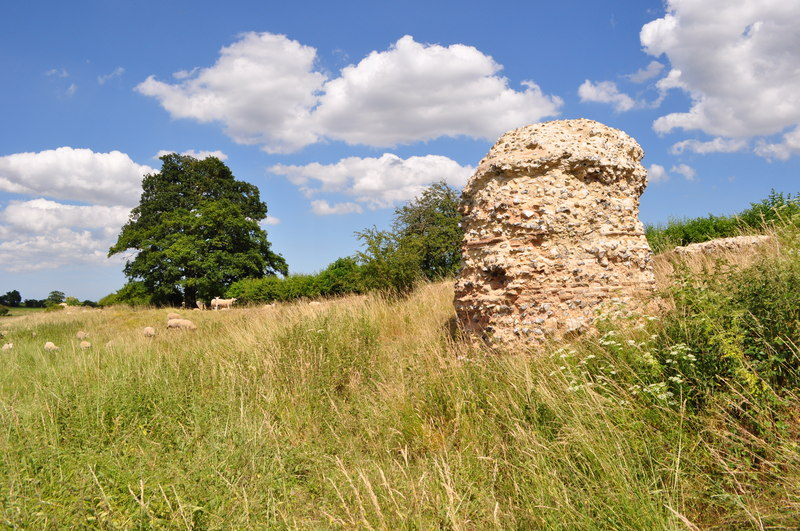 Remaining Bastion at Venta Icenorum, near to Dunston, Norfolk, Great Britain. A remaining bit of Roman wall at Venta Icenorum, the Roman capital of East Anglia. Originally it would have looked similar to this TG4704 : Burgh Castle Walls . With tiles and knapped flint it would have looked very intimidating. This is along with impressive embankments, on the west side the added defence of the river Tas and the southern eastern parts have more earlier ditches. The defences where built to defend the most important part of the town, enclosing 35 acres. Other parts like the amphitheatre were outside along with houses and farms. Construction finished by the AD 200s, 4 metre thick walls 7 metres high with 4 entrances and many bastions. The town was successful until about AD 340 when Roman rule was failing, an uprising in 409 beat off the Romans and by 410 the Roman Army left. The Saxons, Angles and Jutes began to settle here, now Britain became Anglo-Saxon. By 450 the town had stopped functioning as a town, Anglo Saxons settled nearby and the town was robbed for building material.